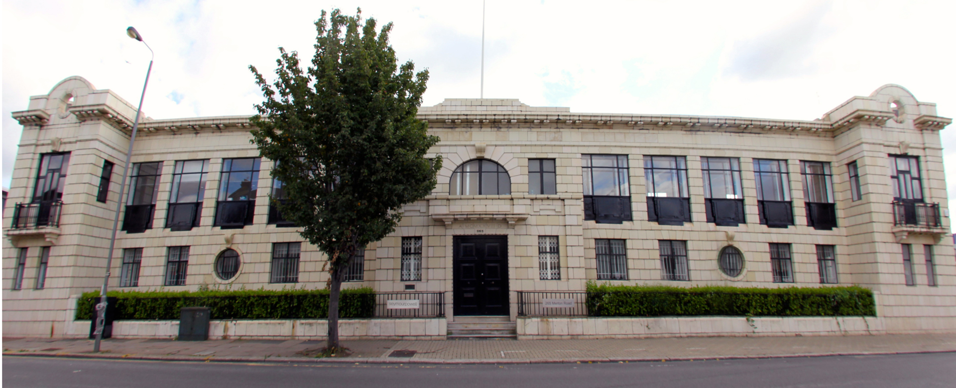 Seymourpowell, 265 Merton Rd, London SW18 5JS. MysteryVibe was incubated at the London-based leading design firm, Seymourpowell